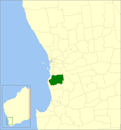 Description=Location of the Local Government Area in Western Australia